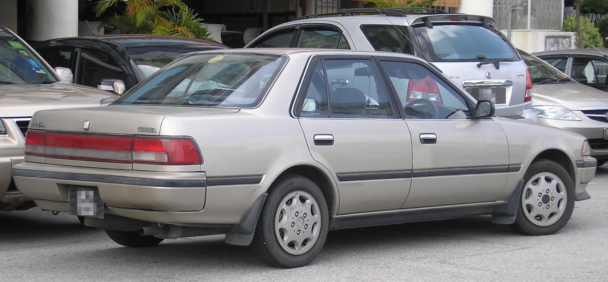 Rear-side shot of a Toyota Corona (T170), in Serdang, Selangor, Malaysia.